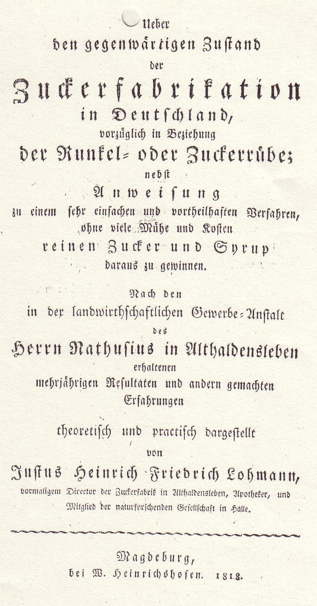 first page in book: Ueber den gegenwärtigen Zustand der Zuckerfabrikation ...